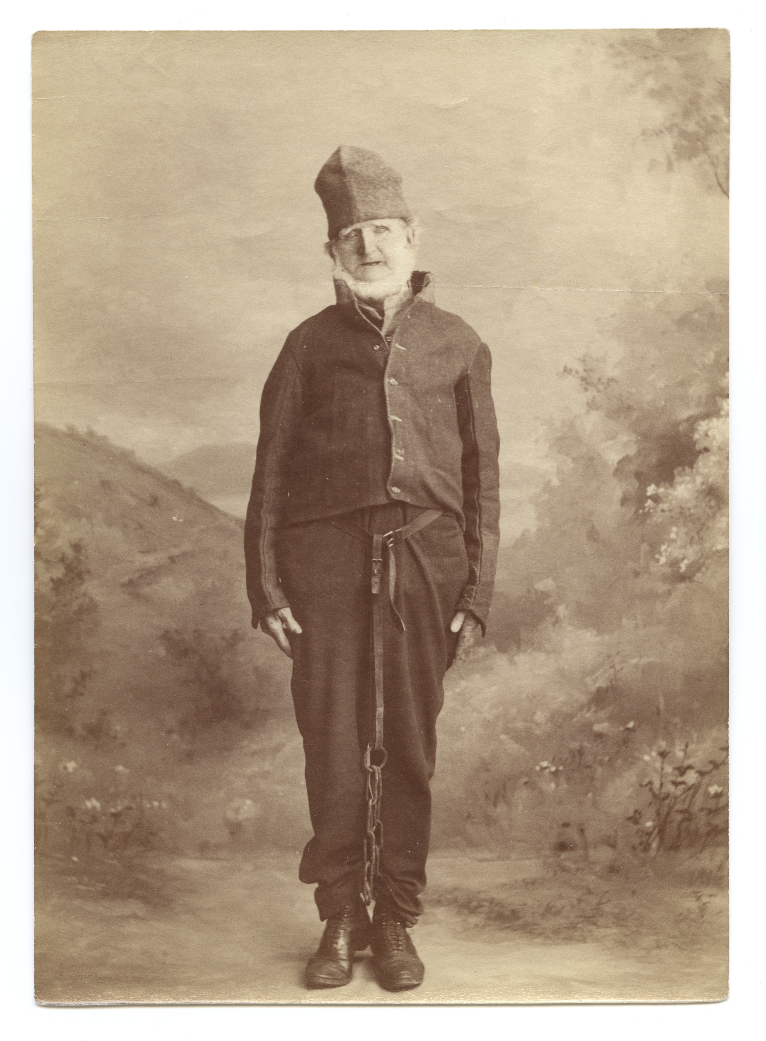 Studio photograph of old William Thompson in convict uniform and leg irons. Subjects: Thompson, William - fl. 1841- Coal Mines (Convict Station : Saltwater River) - Biography Convicts - Tasmania Convicts - Costume - Tasmania - History Older men - History - 19th century Restraint of prisoners - Equipment and supplies - History Leg irons - History ADRI: AUTAS001125883736